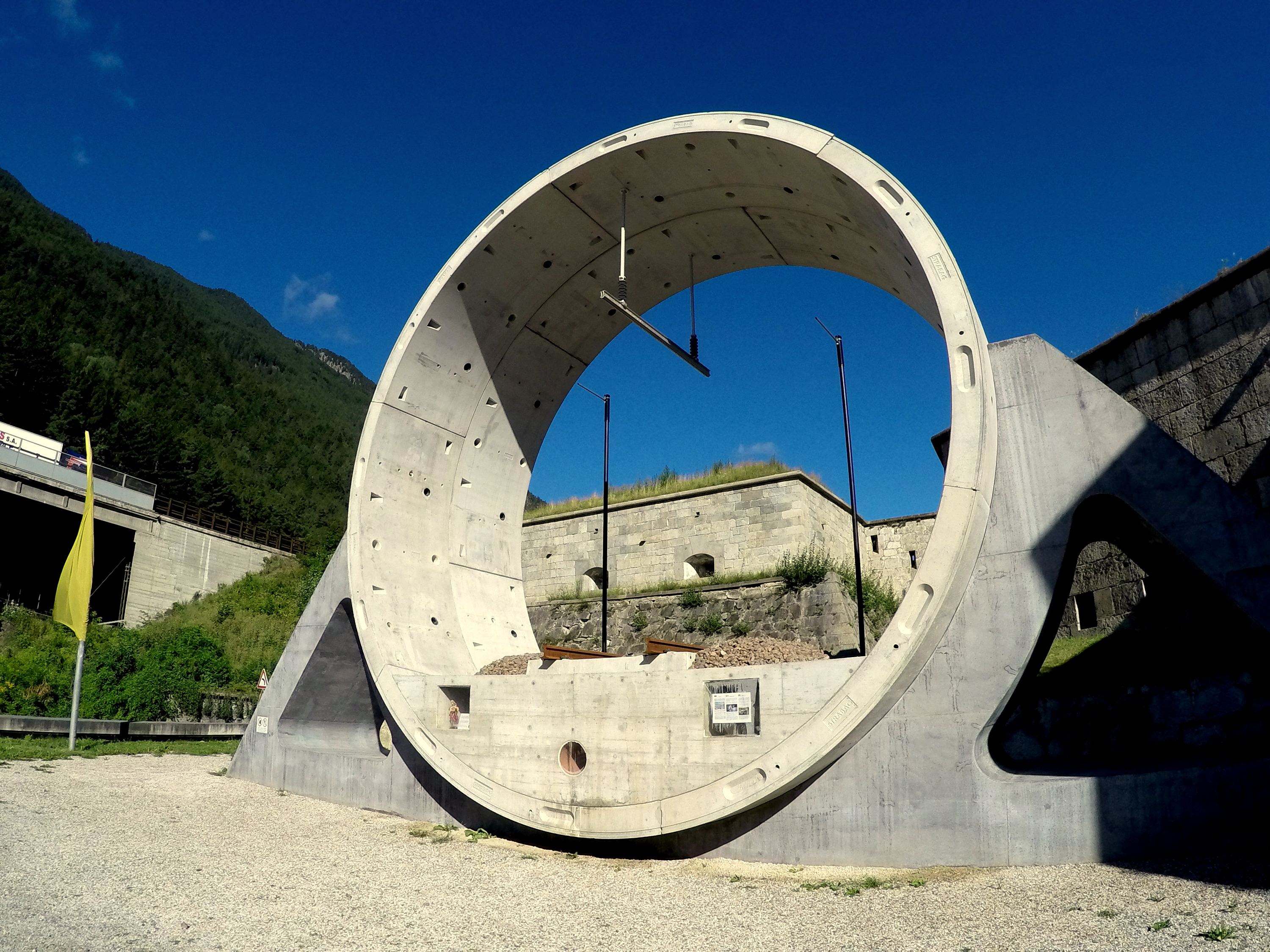 Tunnelsegment Brenner-Basis-Tunnel Franzensfeste